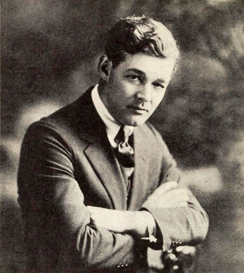 Promotional photo of American director Chester Bennett.